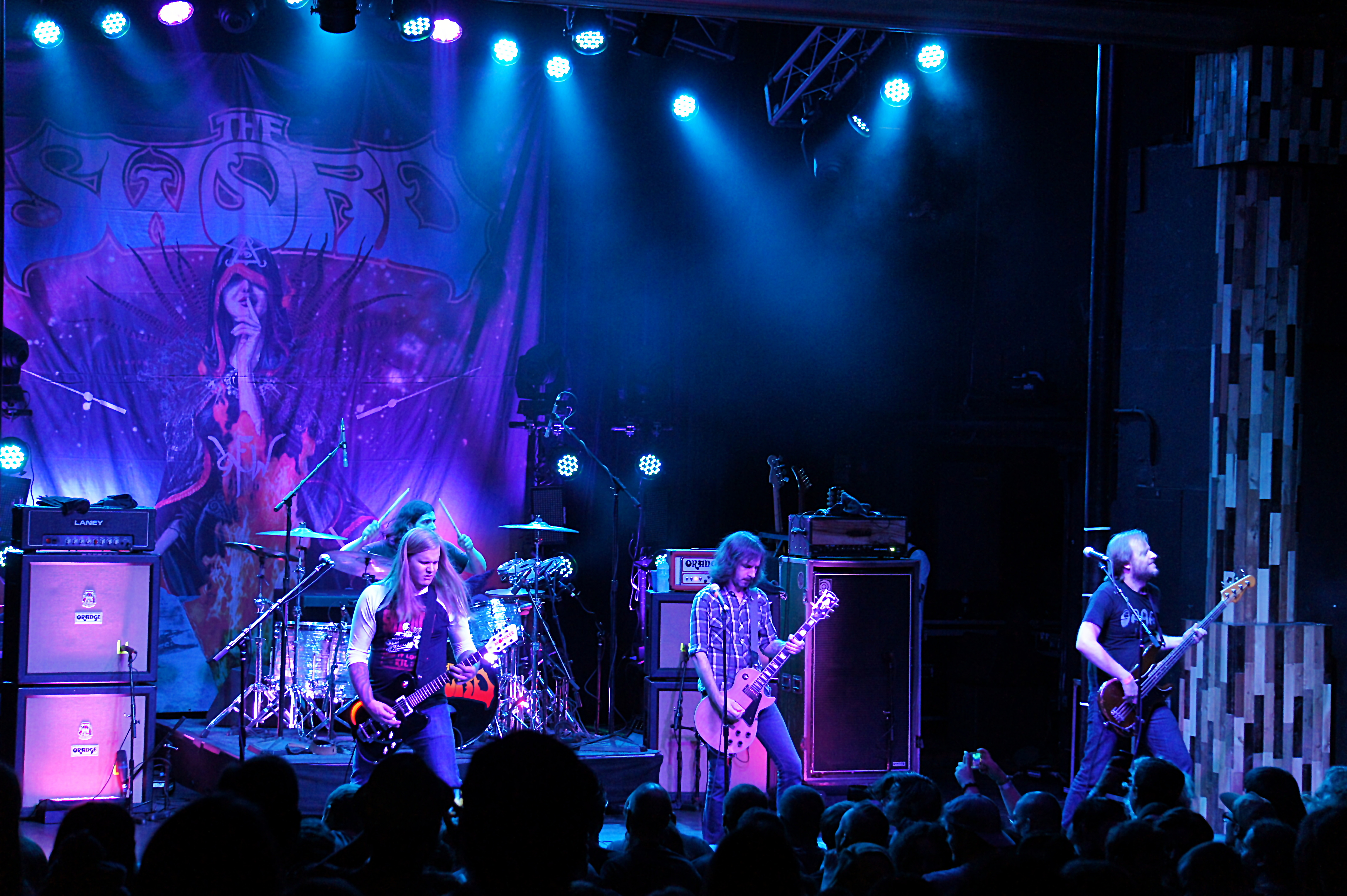 American heavy metal band The Sword performing at The Observatory in Santa Ana, California on August 1, 2013.